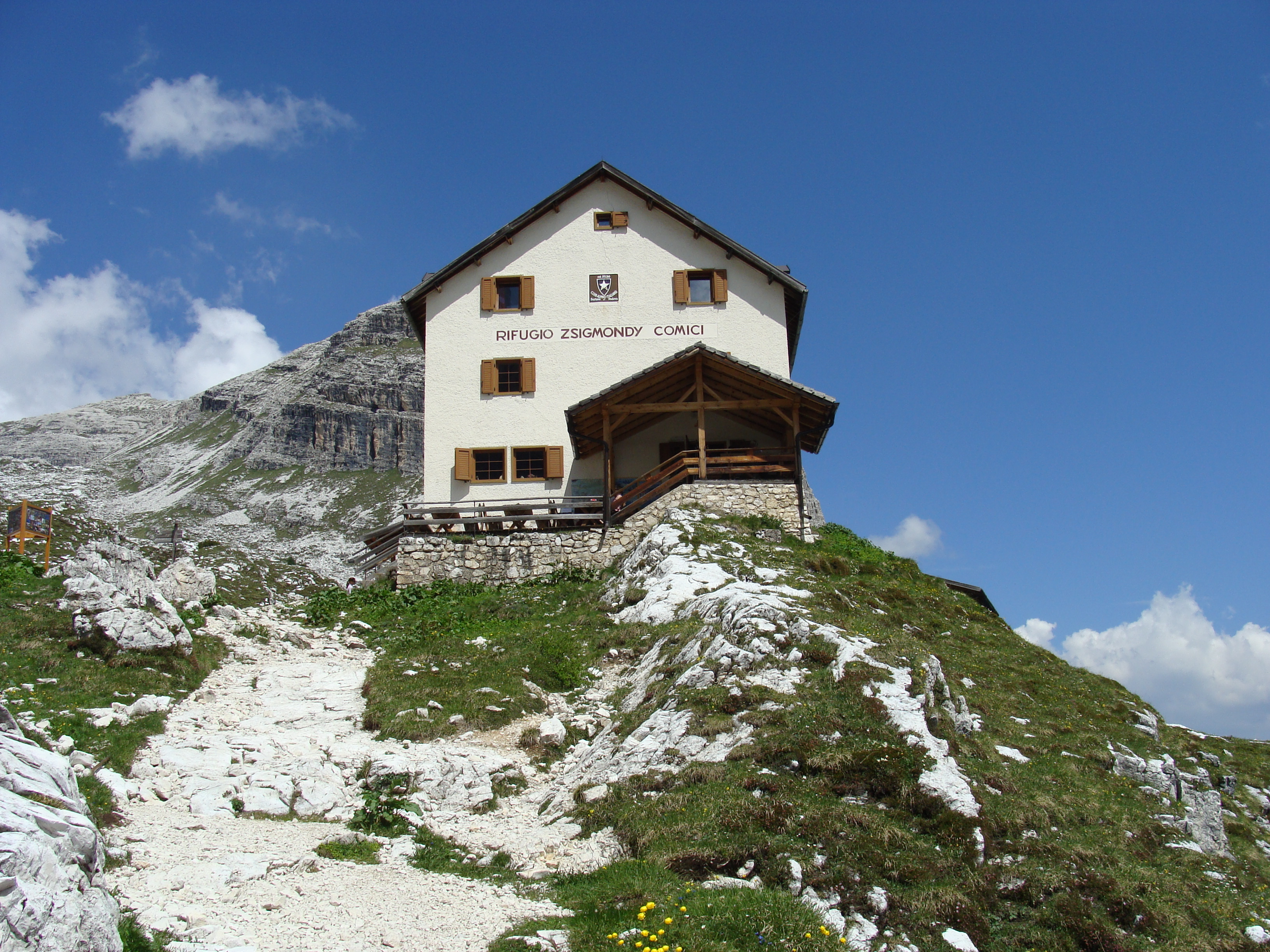 Zsigmondy hut (Sexten Dolomits)